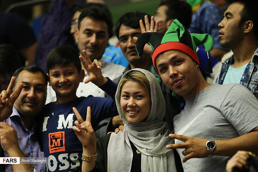 2019 AFC U-20 Futsal Championship, Pursharifi Sport Complex, Tabriz, Iran.